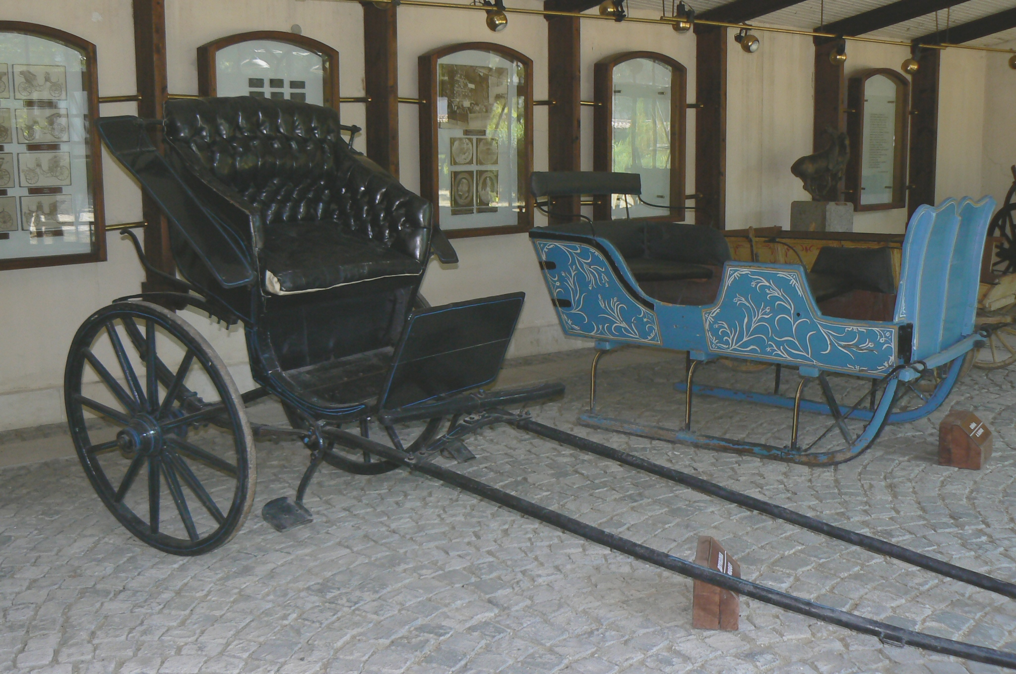 A buggy and a slide from the beginning of 20 century, produced in the factories of Mito Orozov from Vratsa. Exhibited in the Ethnographic complex "Saint Sophronius of Vratsa". Vratsa, Bulgaria